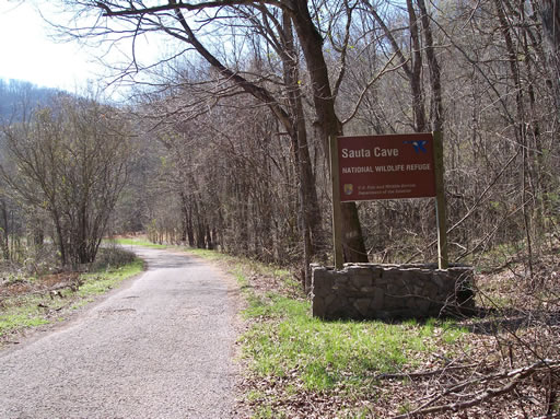 Sauta Cave National Wildlife Refuge, Alabama, United States